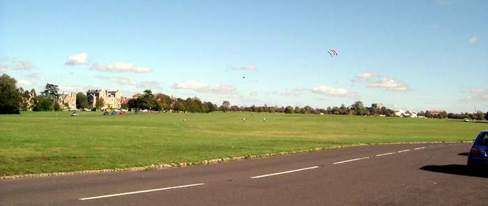 Kites on Clifton Down, Bristol, October 4, en:2004